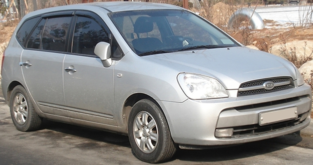 Kia New Carens